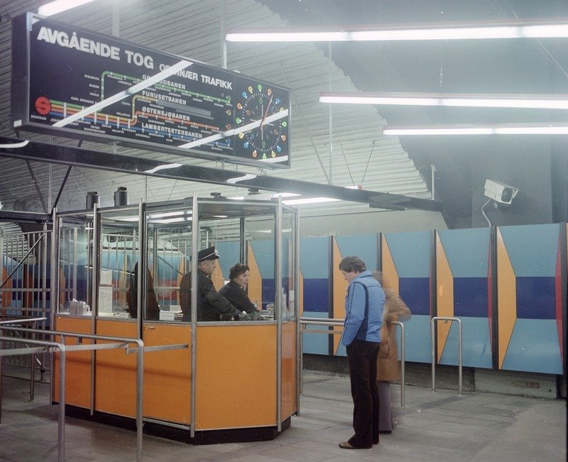 Sentrum Station of the Oslo Metro